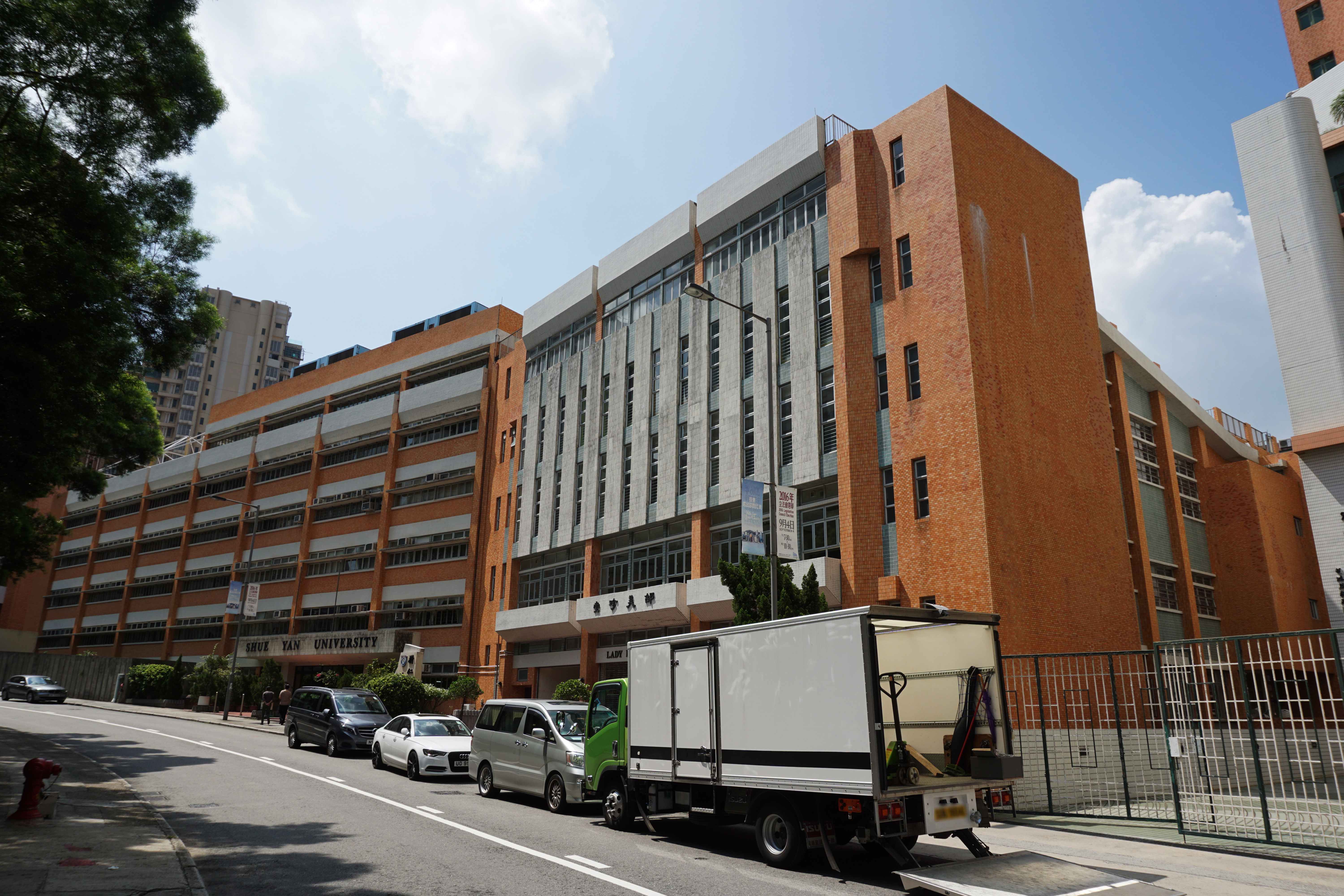 Shue Yan University in Braemar Hill, Hong Kong.